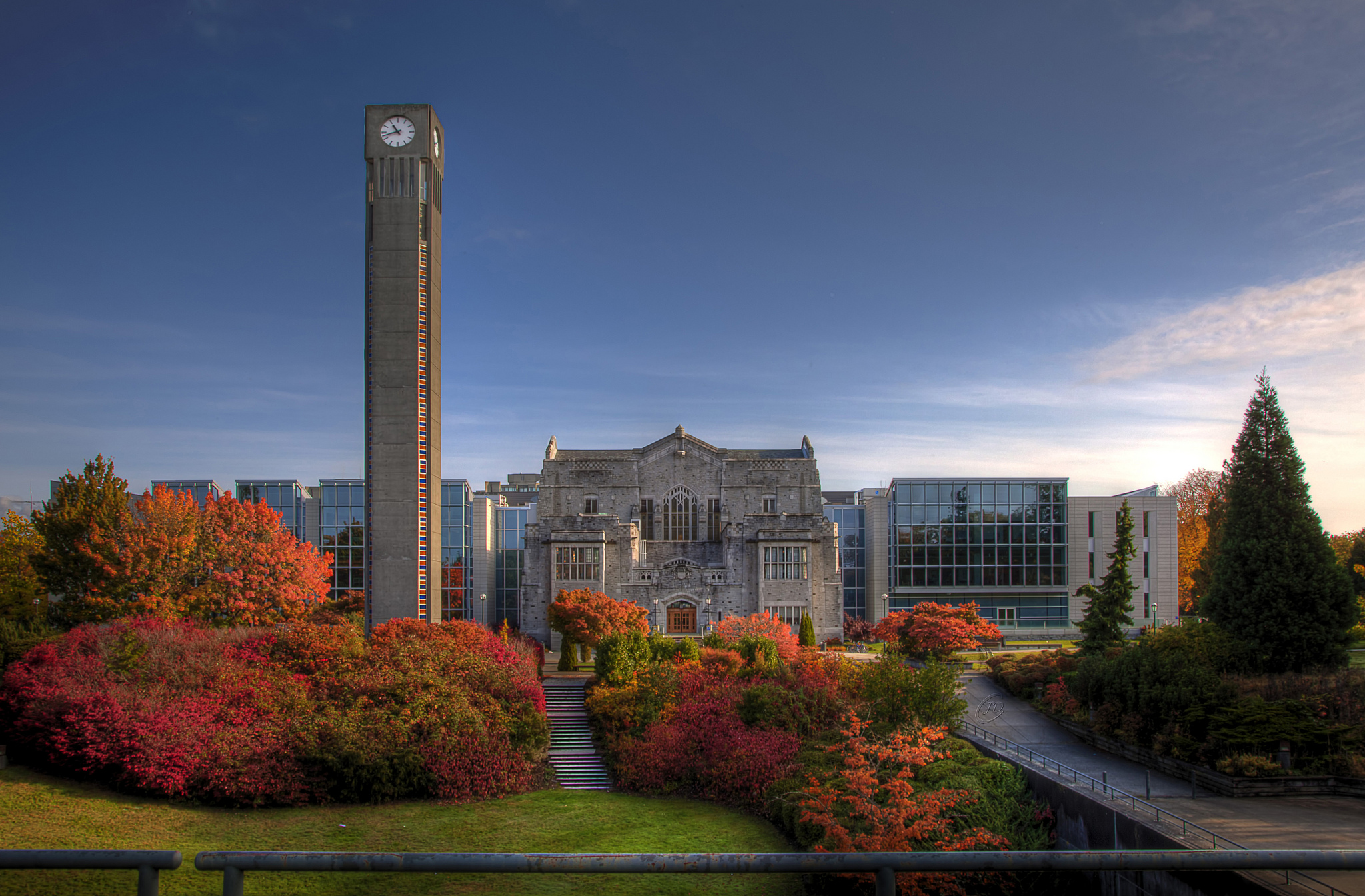 The Irving K. Barber Learning Centre of the University of British Columbia.